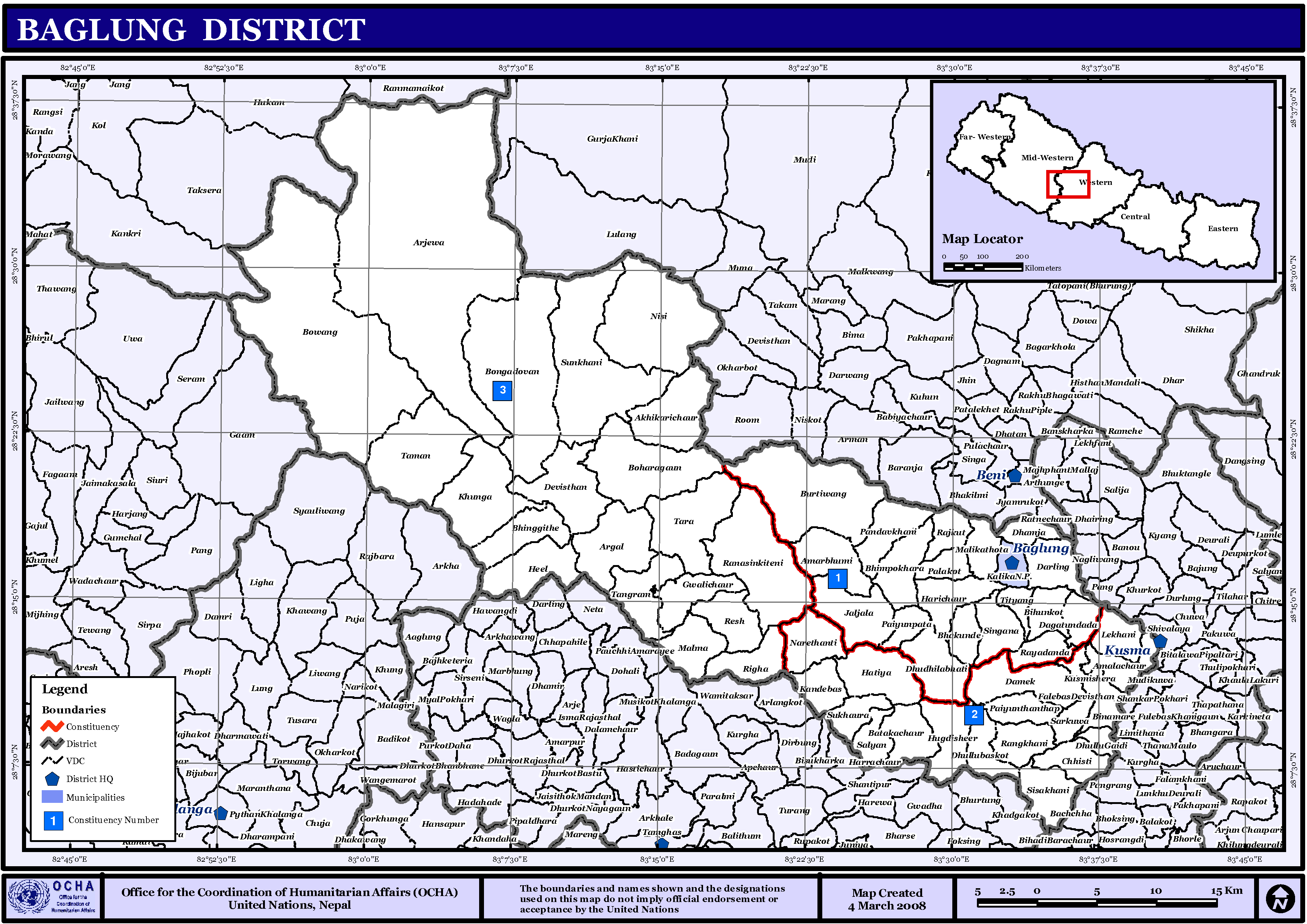 Map displaying Village Development Committees in Baglung District, Nepal